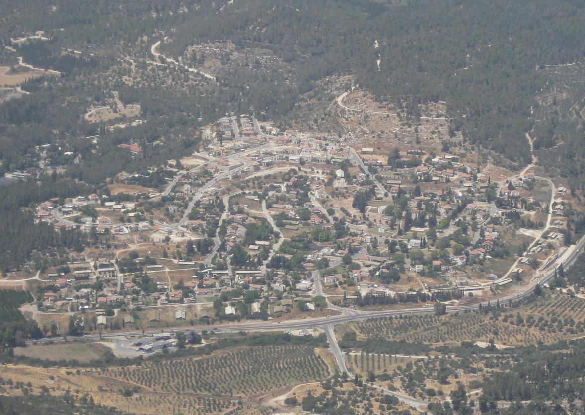 Eshtaol, a moshav in Israel.